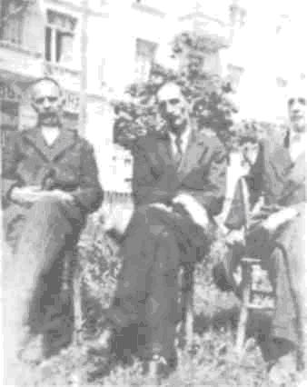 IMARO revolutionary/ies